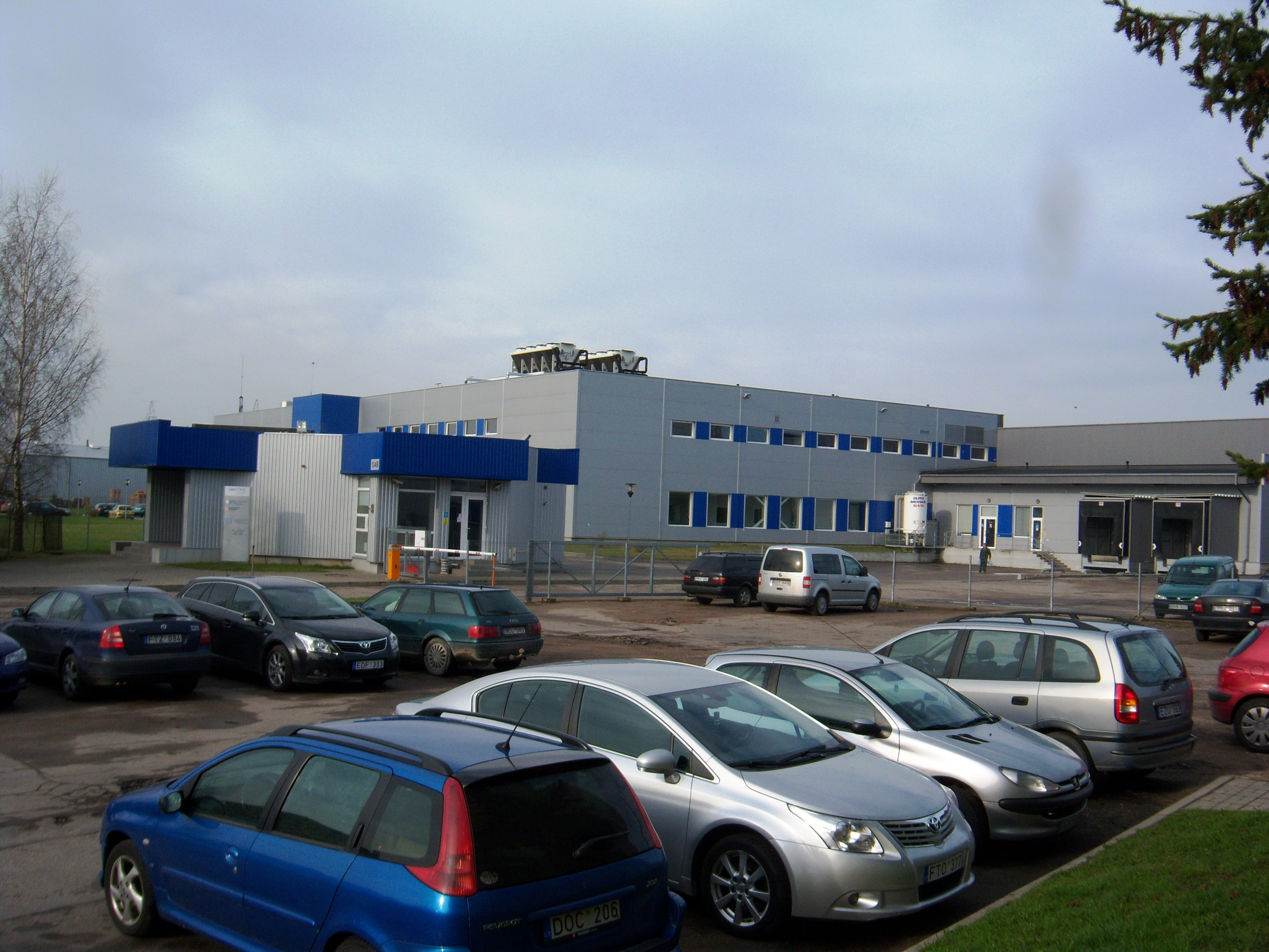 „Sanitas“, specialty pharmaceutical company, Kaunas, Lithuania